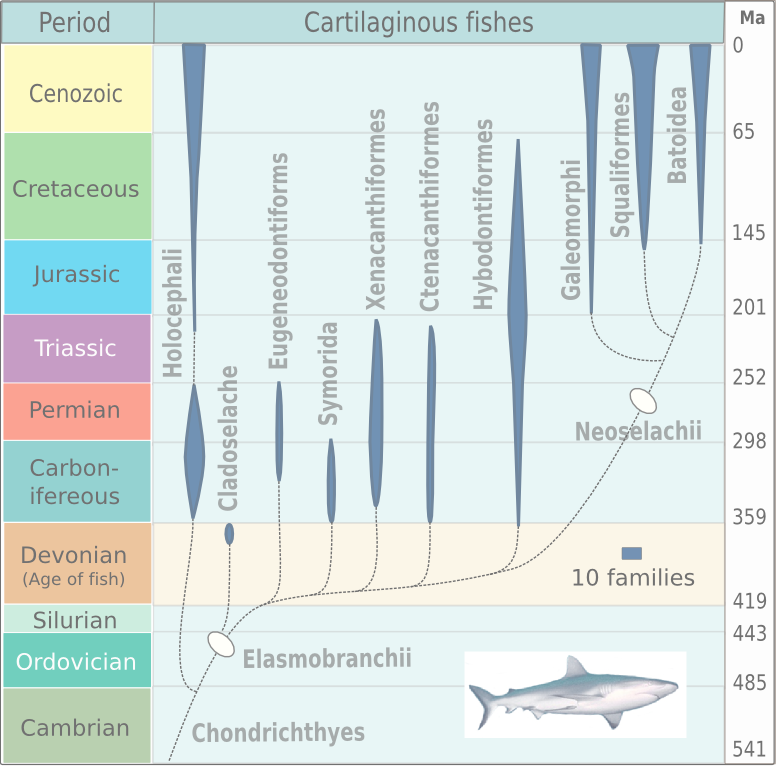 Evolution of cartilaginous fishes from the Devonian to the present as a spindle diagram. The width of the spindles are proportional to the number of families as a rough estimate of diversity. The diagram is based on Benton, M. J. (2005) Vertebrate Palaeontology, Blackwell, 3rd edition, Fig 7.13 on page 185.